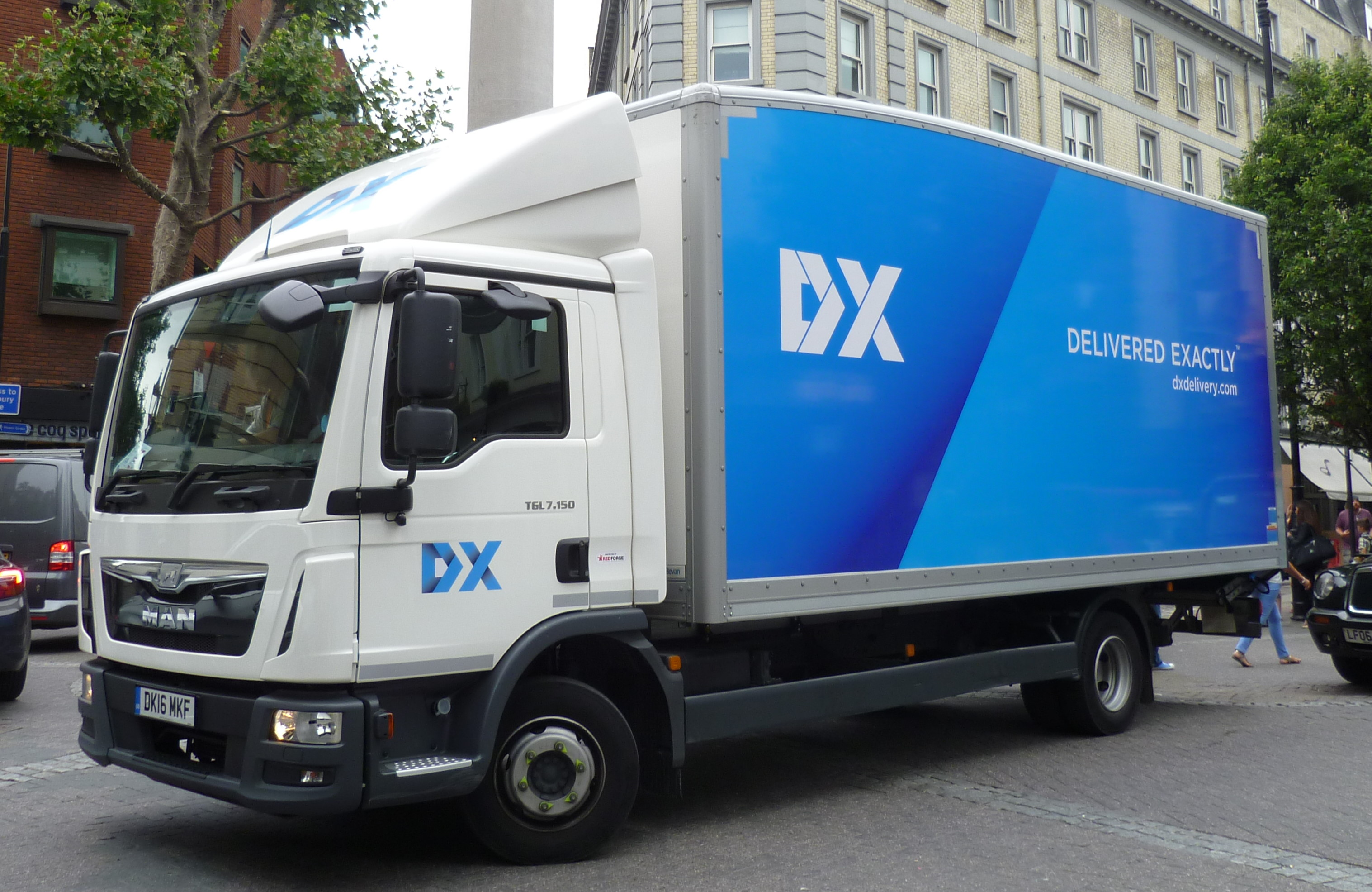 Covent Garden